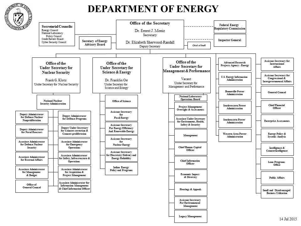 Organizational chart of the U.S. Department of Energy as of July 2015